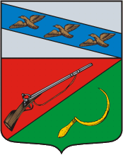 Schigry (Kursk oblast), coat of arms (1780)